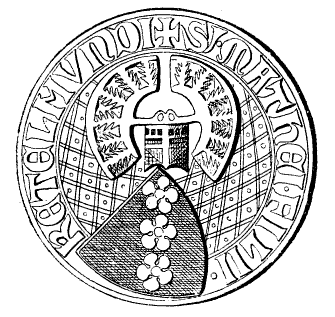 Swedish riksdrots and rikshövitsman Mats/Mattias Kettilmundssons seal. Picture taken from Nordisk familjebok from 1913.